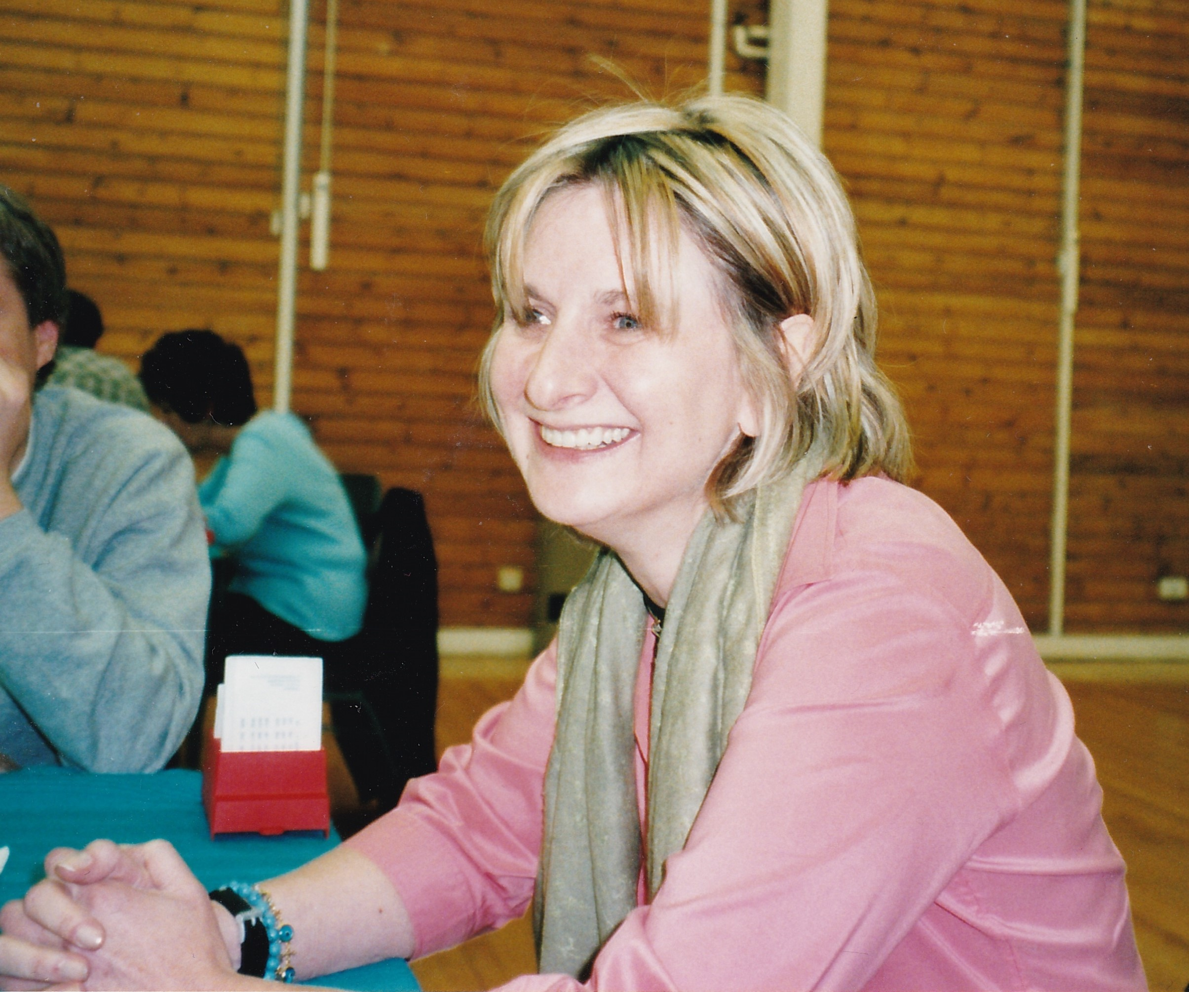 Dame Janet Frances de Botton DBE (née Wolfson; formerly Green; born 31 March 1952) is a British art collector and philanthropist.